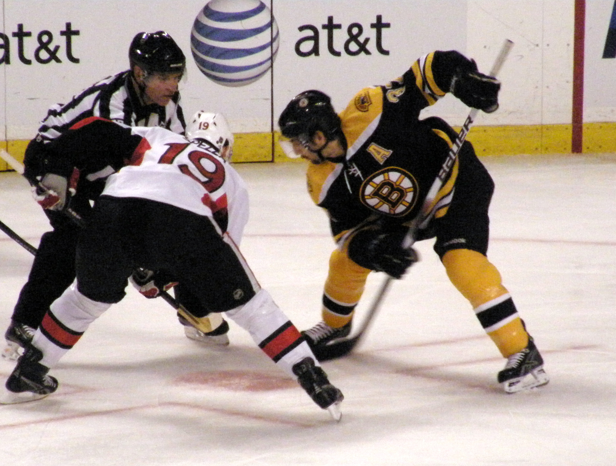 Faceoff: Spezza (C, OTT) vs. Bergeron (C, BOS). Gord Dwyer (Ref, NHL) dropping the puck.